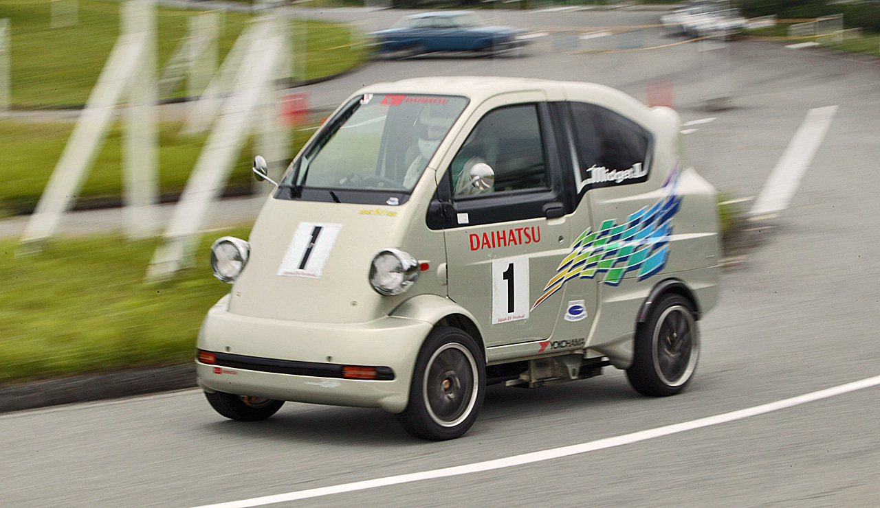 Daihatsu Midget II Electric Racer in Challenge EV Midget II 2004, at Oiso Prince Hotel.